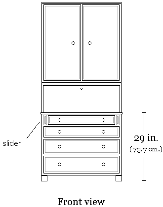 (This sketch of the front of a secretary desk was made to illustrate the secretary desk article in Wikipedia) I am placing this sketch in the Public domain --AlainV 13:25, 18 March 2006 (UTC) history This file is a cleaned up PNG version of Secretarydeskfront20050410.jpg